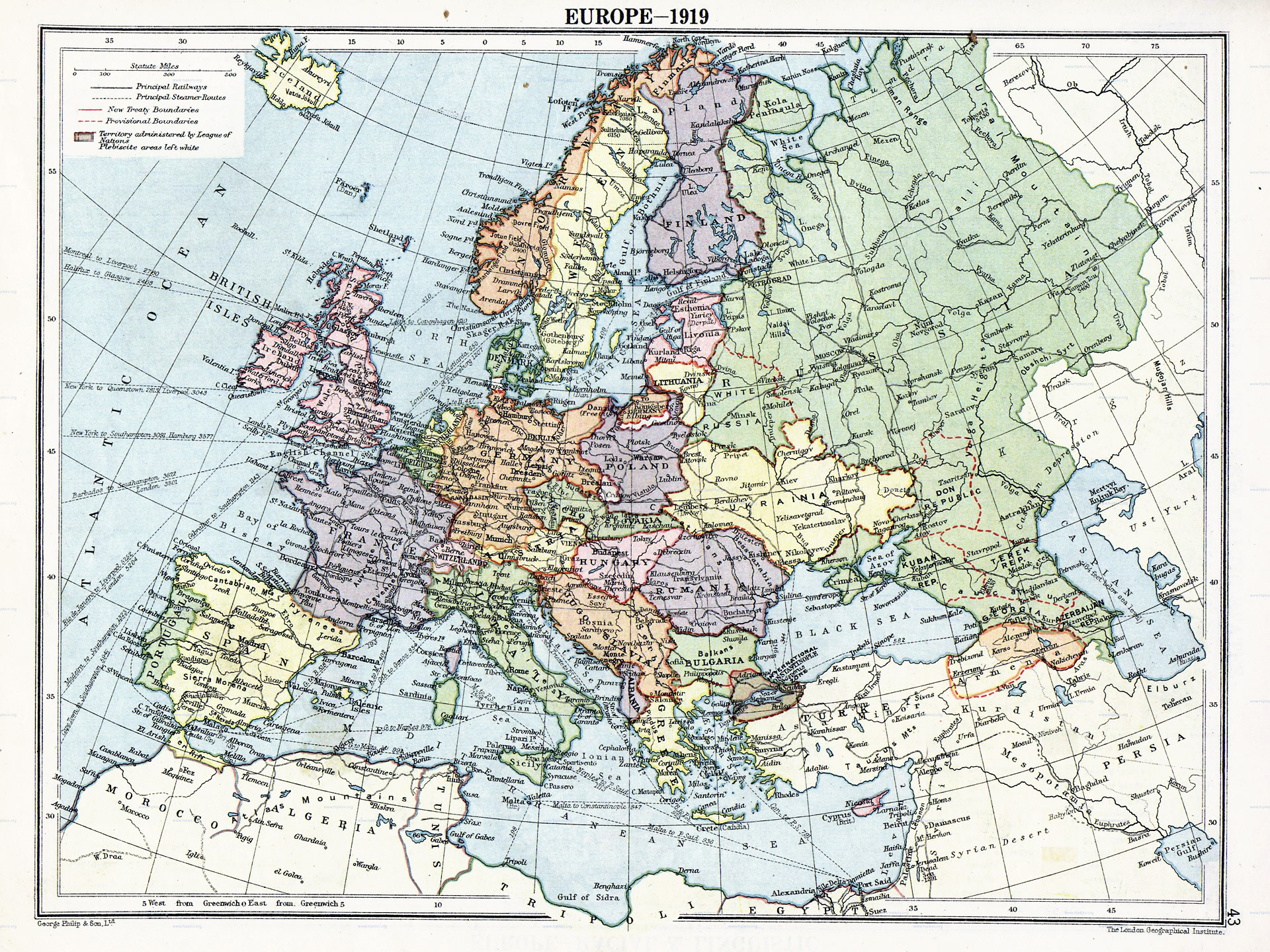 Map of Europe political divisions in 1919 (after the treaties of Brest-Litovsk and Versailles and before the treaties of Trianon, Riga, Kars and the establishment of Soviet Union and the republics of Ireland and Turkey) published by London Geographical Institute. This uploaded map is a photoshopped version of the original image located at . According to the site, there are no copyrights to this map.